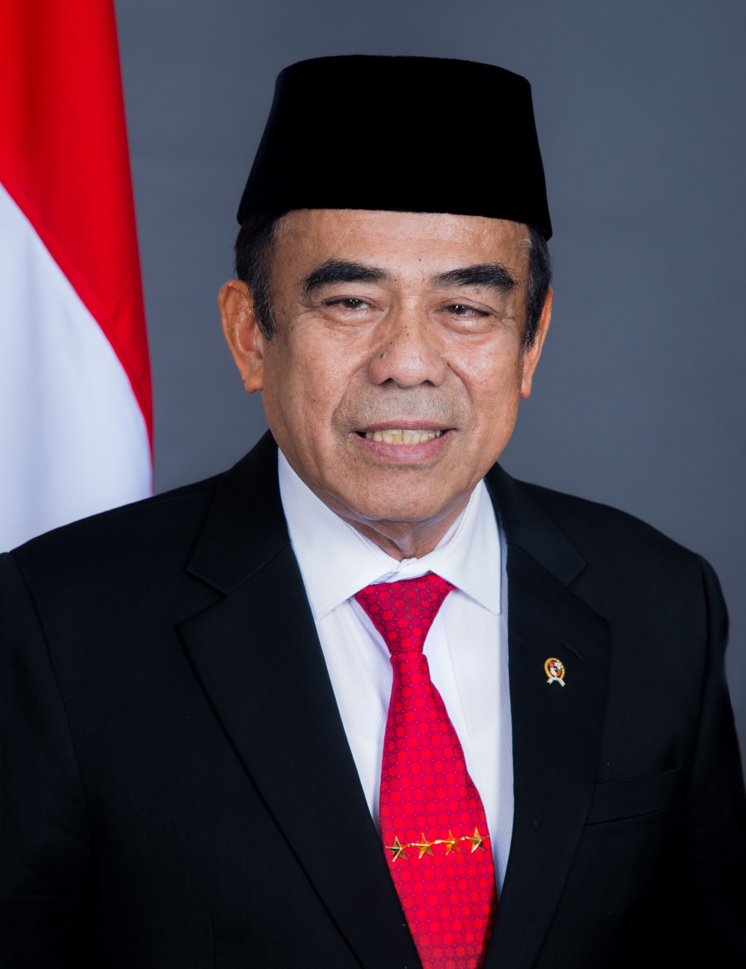 Official portrait of General (ret.) Fachrul Razi as the Minister of Religious Affairs of the Republic of Indonesia for 2019-2024 period